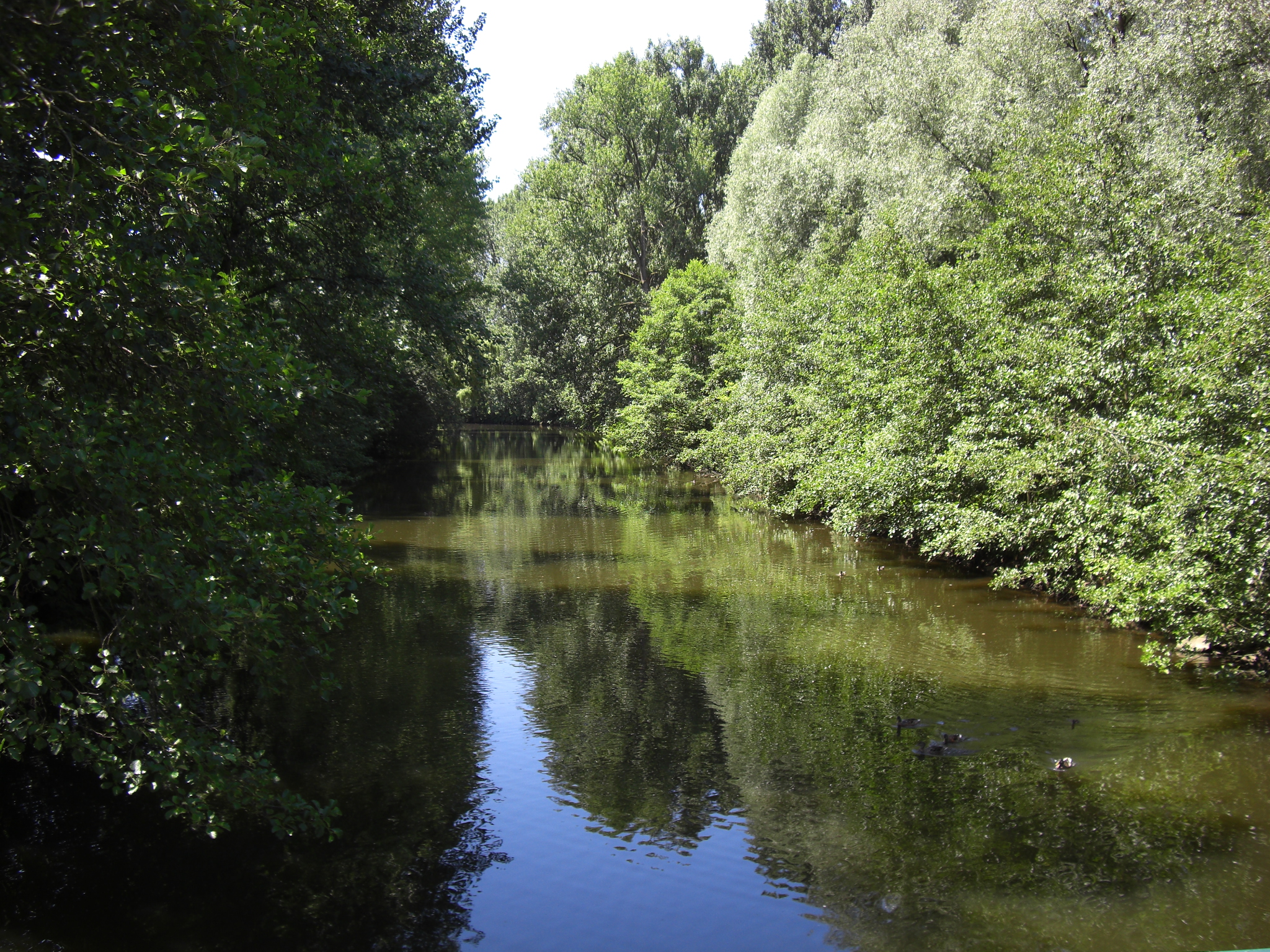 The Berkel River